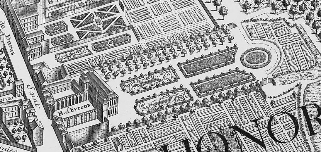 The grounds of the Hôtel d'Évreux (present Palais de l'Élysée) from the Turgot map of Paris